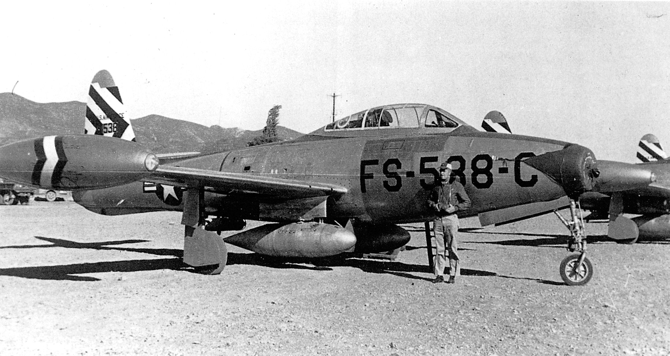 Republic F-84G-16-RE Thunderjet 51-10538 "Damn Yankee", 7th Fighter-Bomber Squadron, 49th Fighter-Bomber Group, shown at Pohangdong AB (K-3), South Korea, equipped with wing pylon fuel tanks and JATO Bottles for taking off on short runways. Pohangdong was an alternate for Taegu AB (K-2), and due to its short runways, JATO bottles were needed for takeoff.